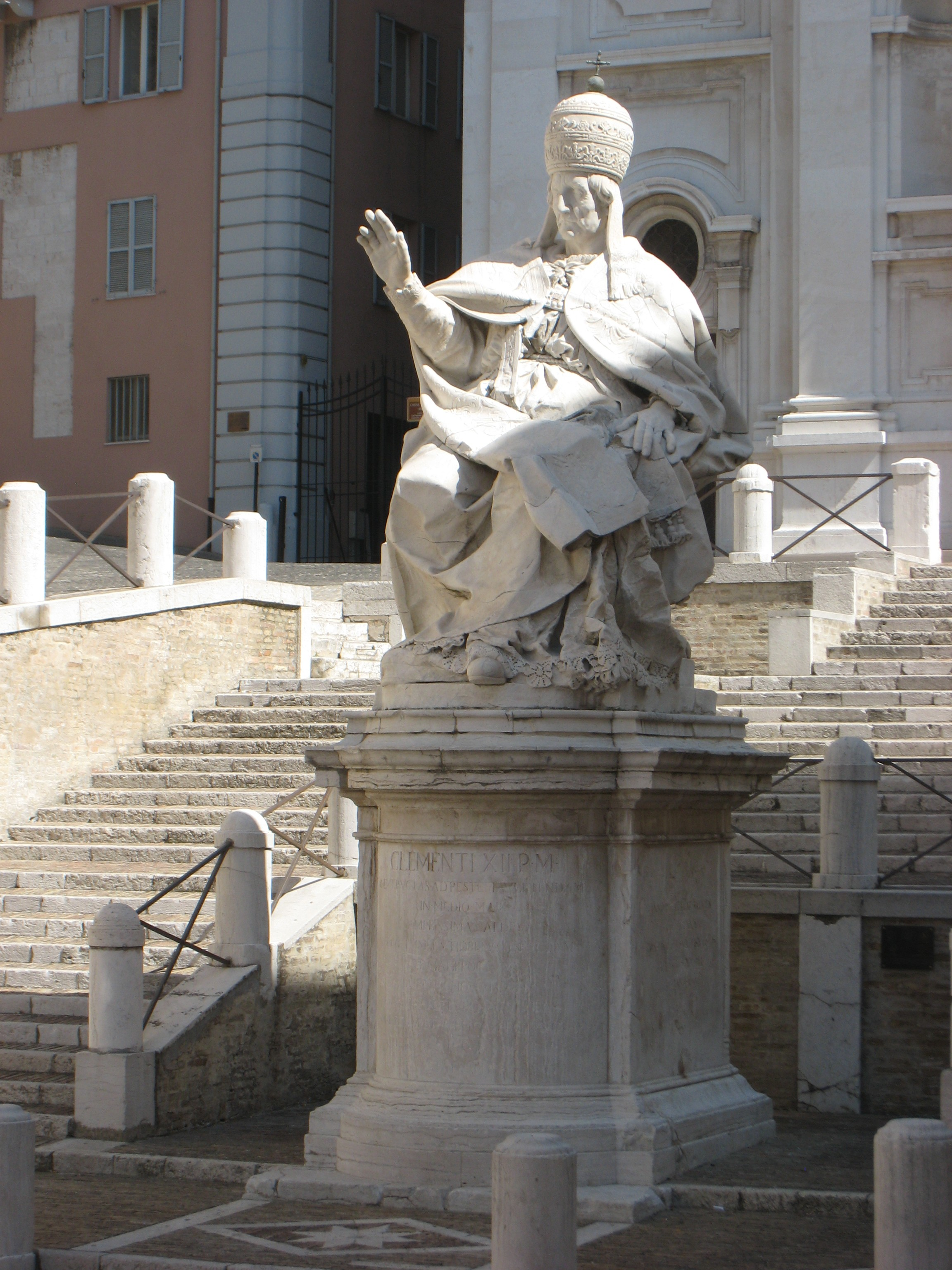 Statue of Pope Clemens XII in Ancona